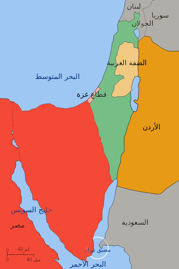 Jordan-Egypt option